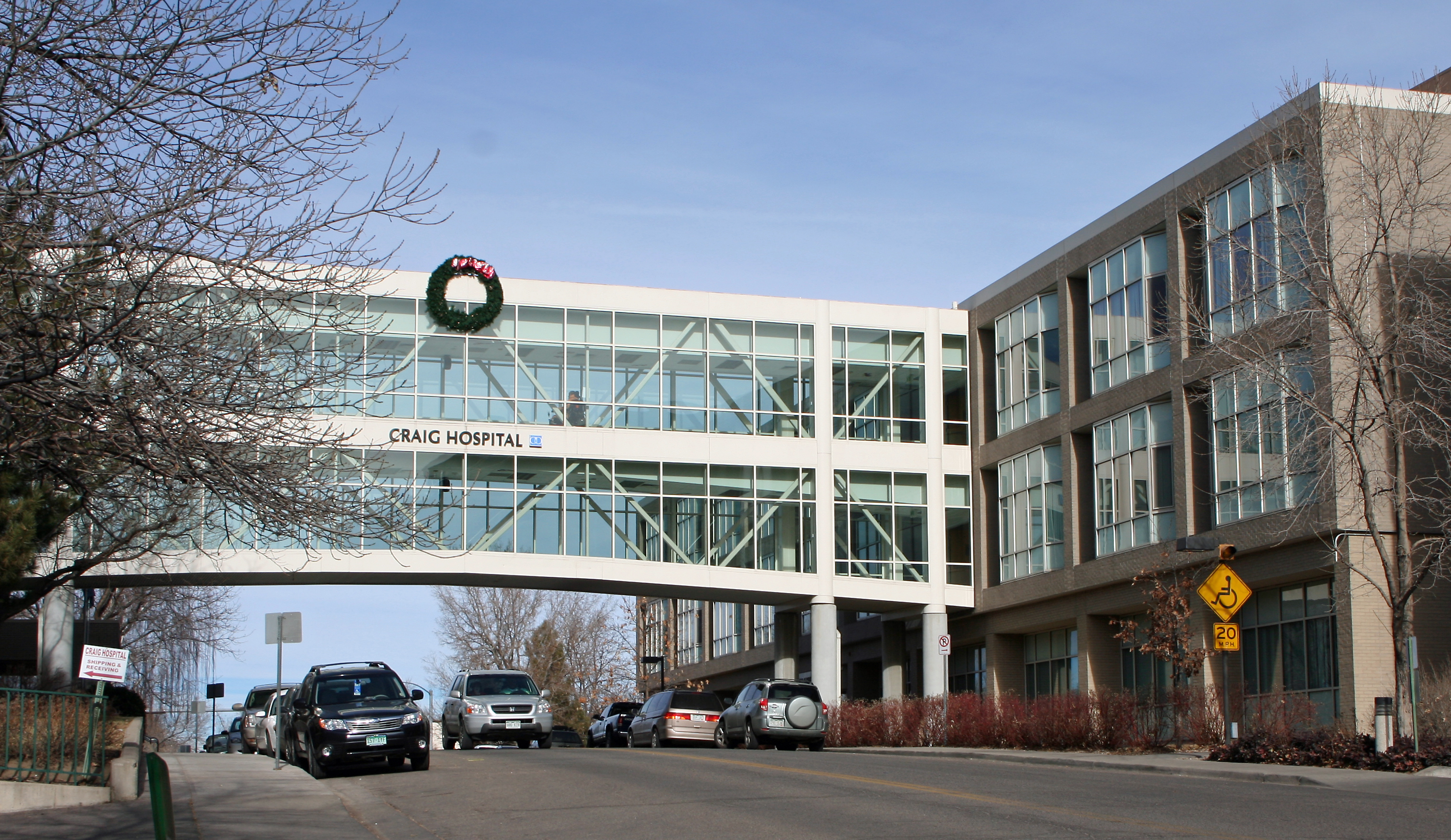 Craig Hospital in Englewood, Colorado